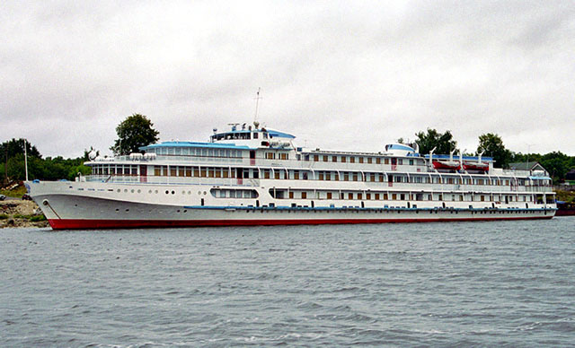 Karl Marks Project 588 build 1957 26 April 2005